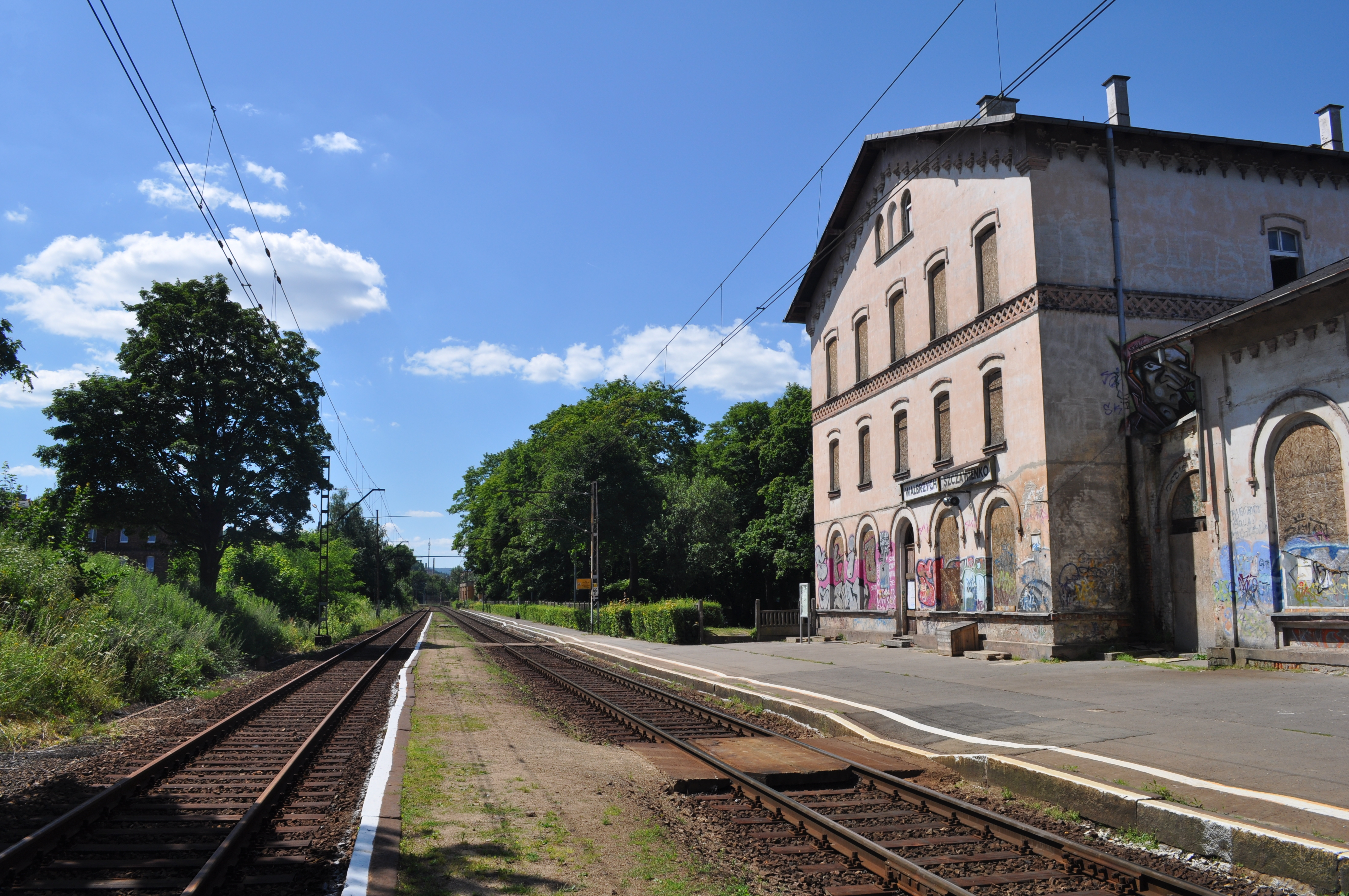 Wałbrzych Szczawienko train station